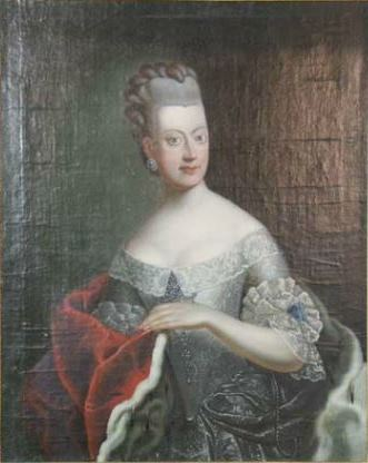 Sophie of Saxe-Hildburghausen, hereditary duchess of Saxe-Coburg-Saalfeld (1760-1776)